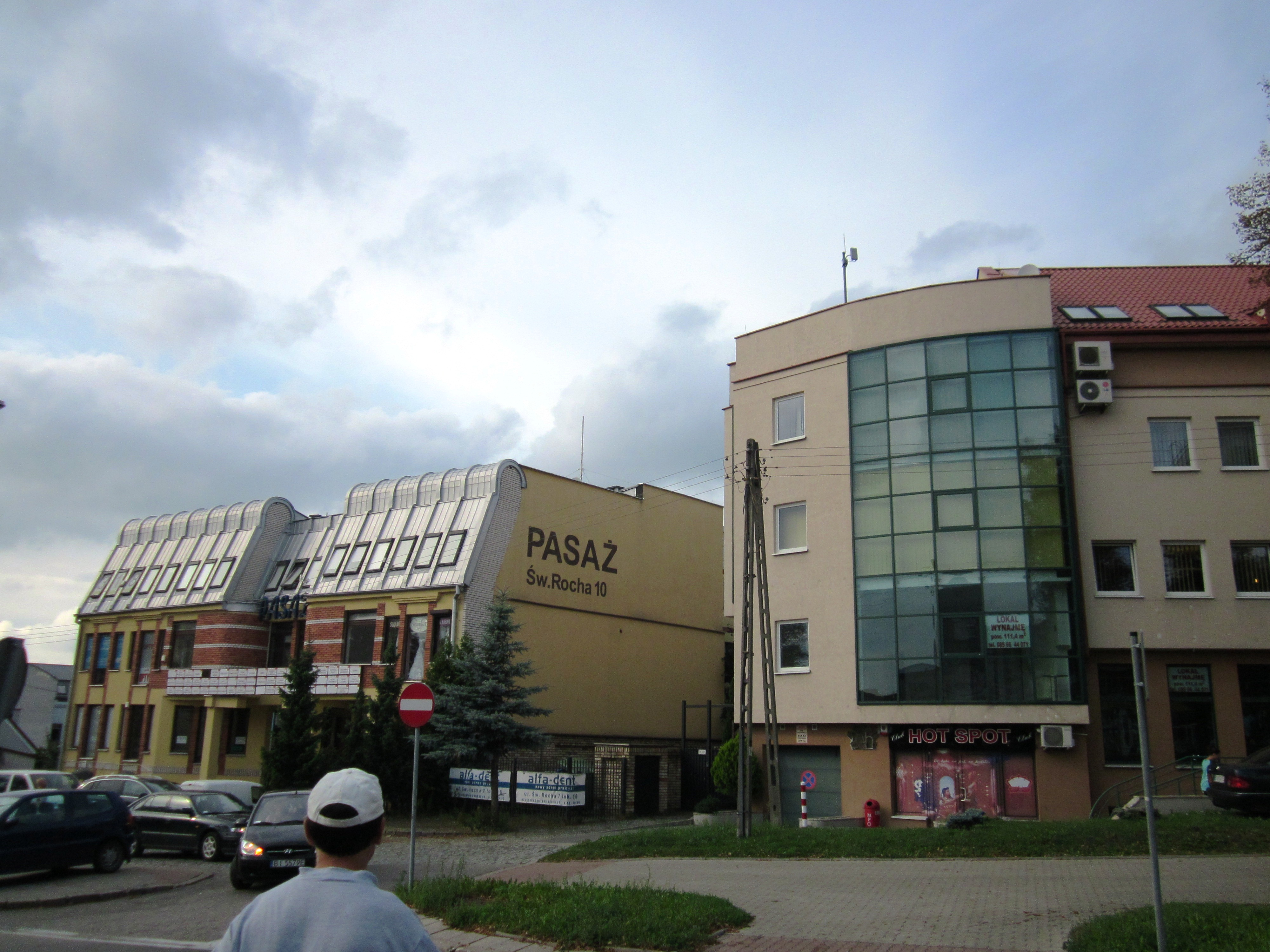 Pavilions shopping "Pasaż", street of St. Roch 10 in Białystok